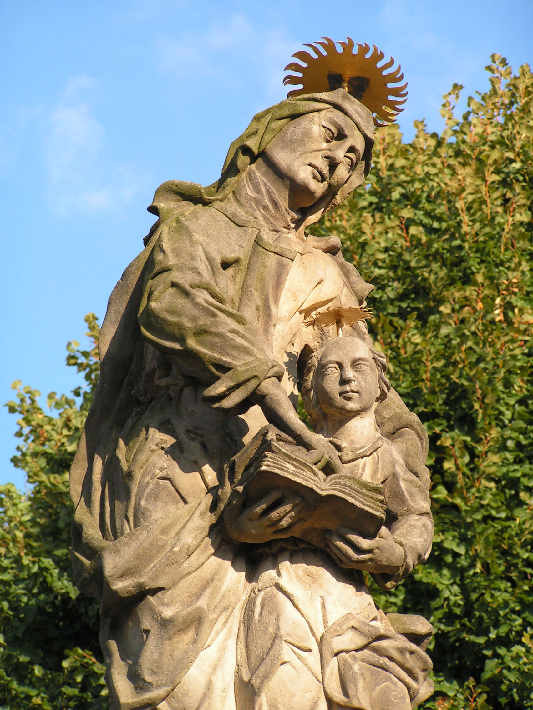 St. Anna-detail, Radim village